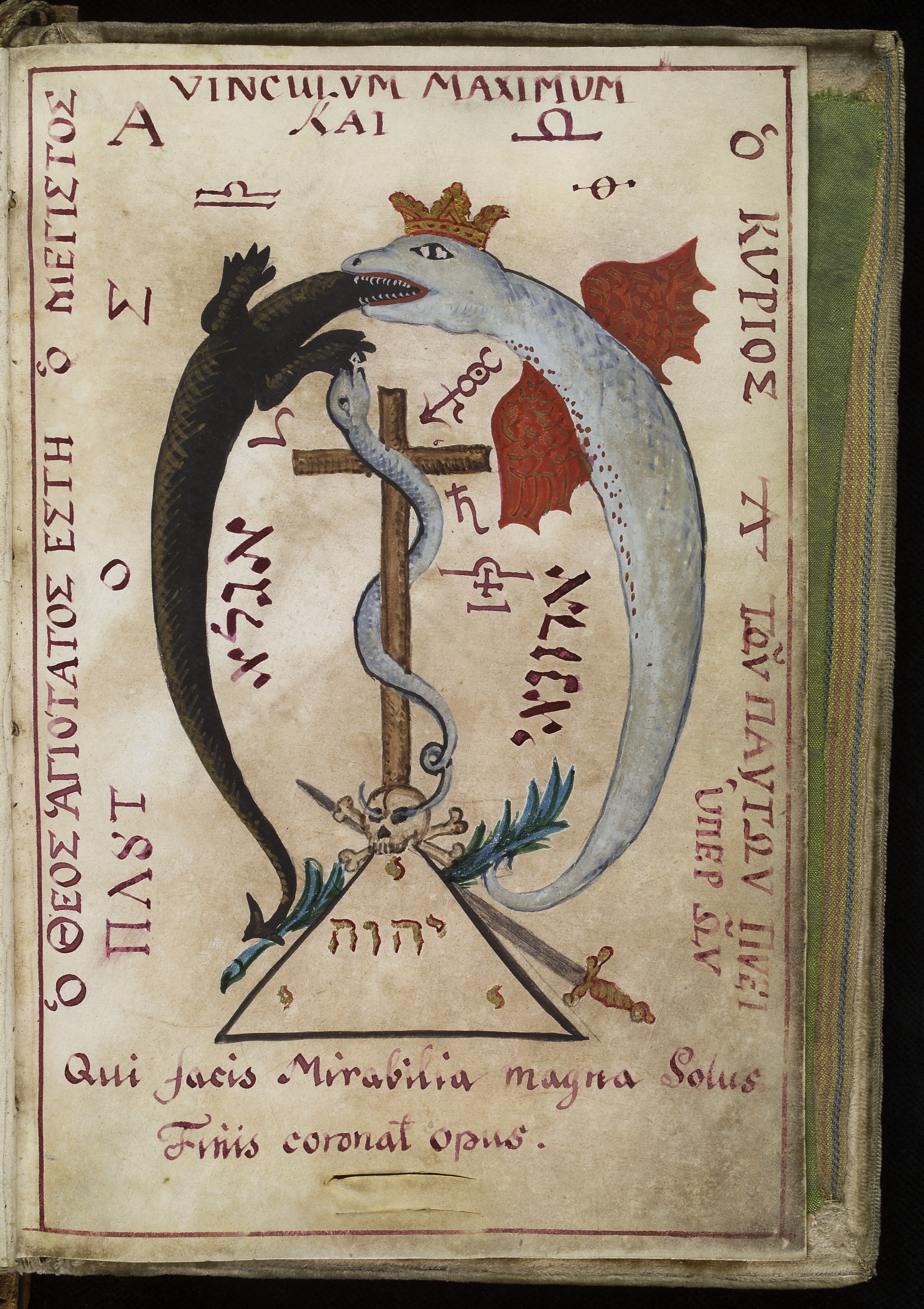 Ink and watercolour showing a red-winged dragon wearing a gold crown and devouring a lizard. Between the two figures is a snake entwined around a cross with a skull and crossbones at its base. From Cyprianus, 18th century. Cyprianus is also known as the Black Book, and is the textbook of the Black School at Wittenburg, the book from which a witch or sorceror gets his spells. The Black School at Wittenburg was purportedly a place in Germany where one went to learn the black arts. Archives & Manuscripts Keywords: Occult; Magic; Snakes; Serpent; Talismans; Demon; Demonology; Snake; Dragon; Monsters; M L Cyprianus